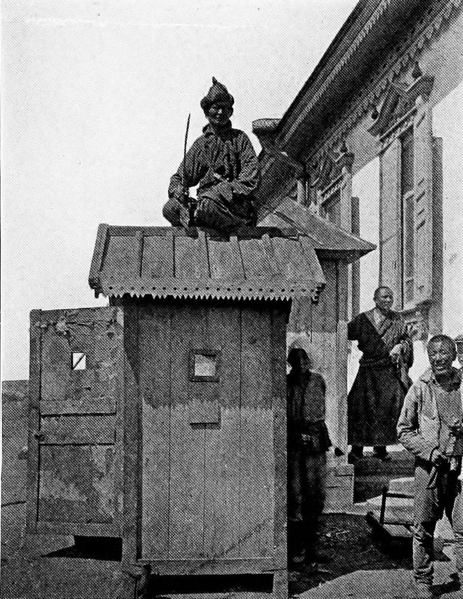 Photo from Across Mongolian Plains A Naturalist's Account of China's "Great Northwest"